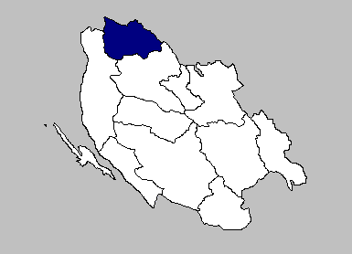 Self-made map of the Brinje municipality within Lika-Senj County.